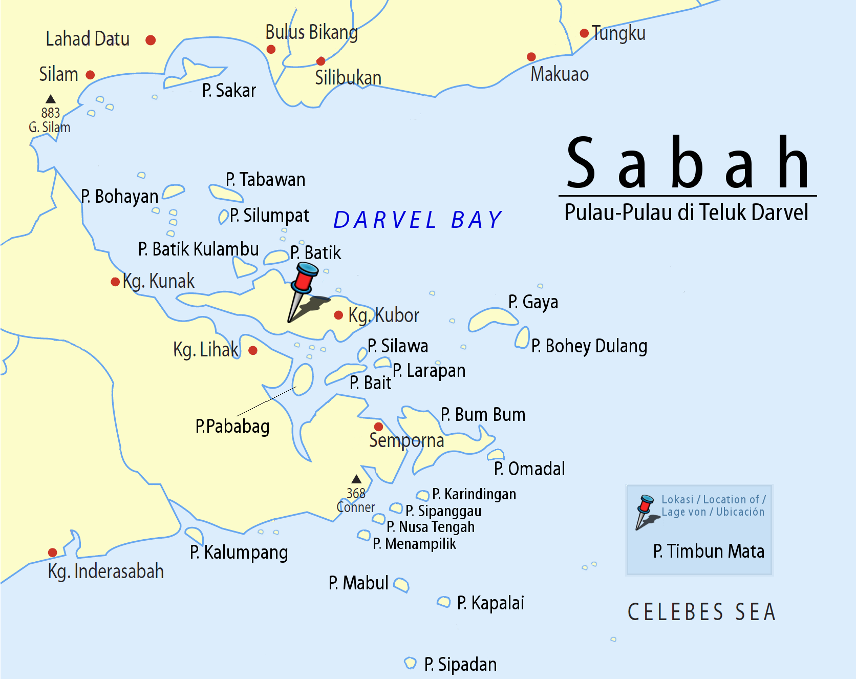 Sabah: Scheme of Islands in the Darvel Bay with Pushpin Marker for Pulau Timbun Mata